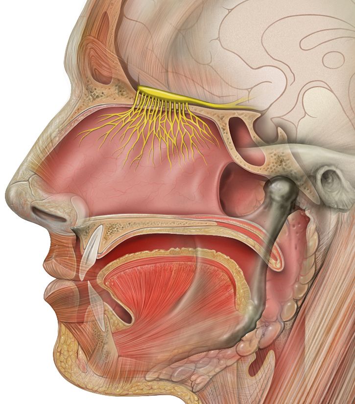 Head anatomy with olfactory nerve